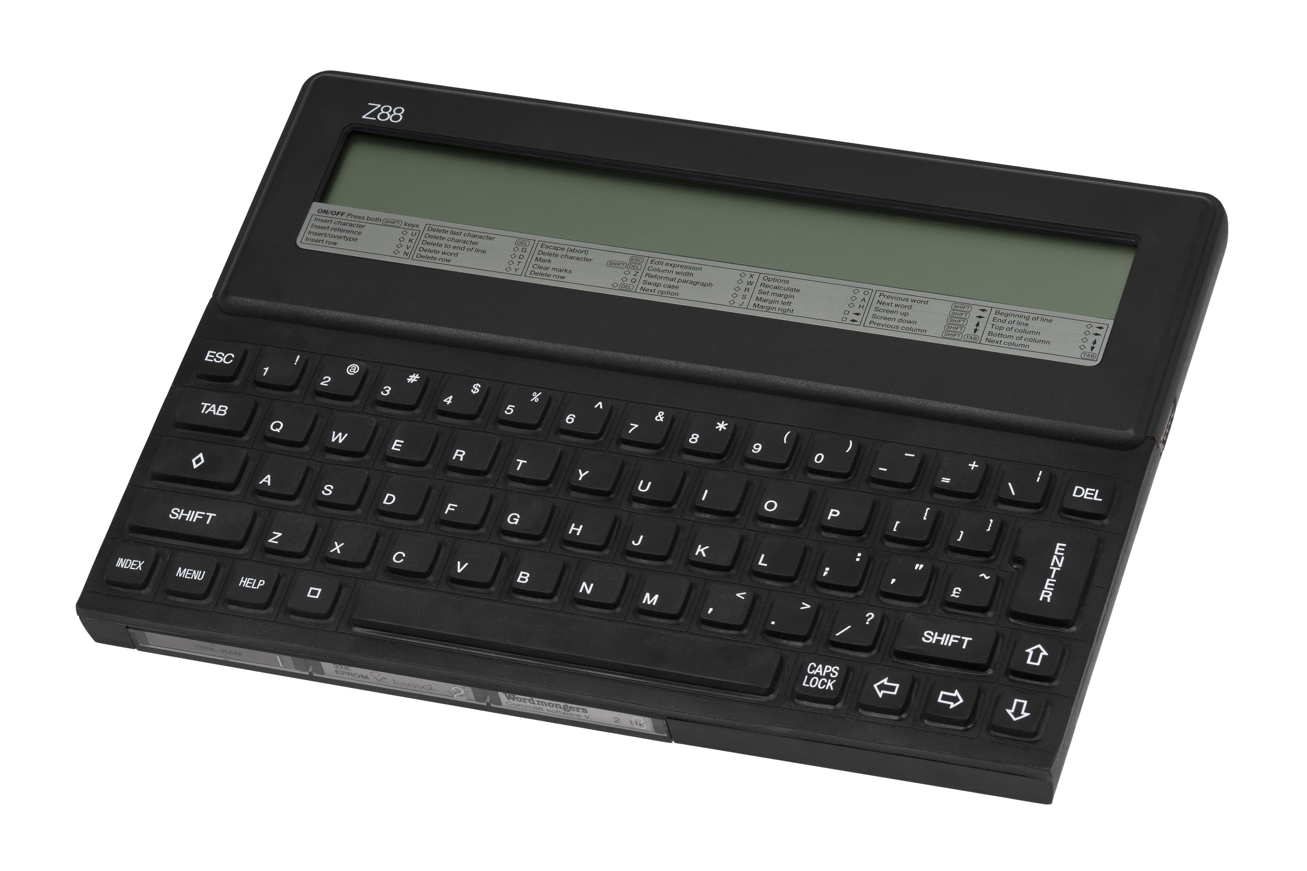 The Cambridge Z88, a portable Z80-based computer that was released in 1988.